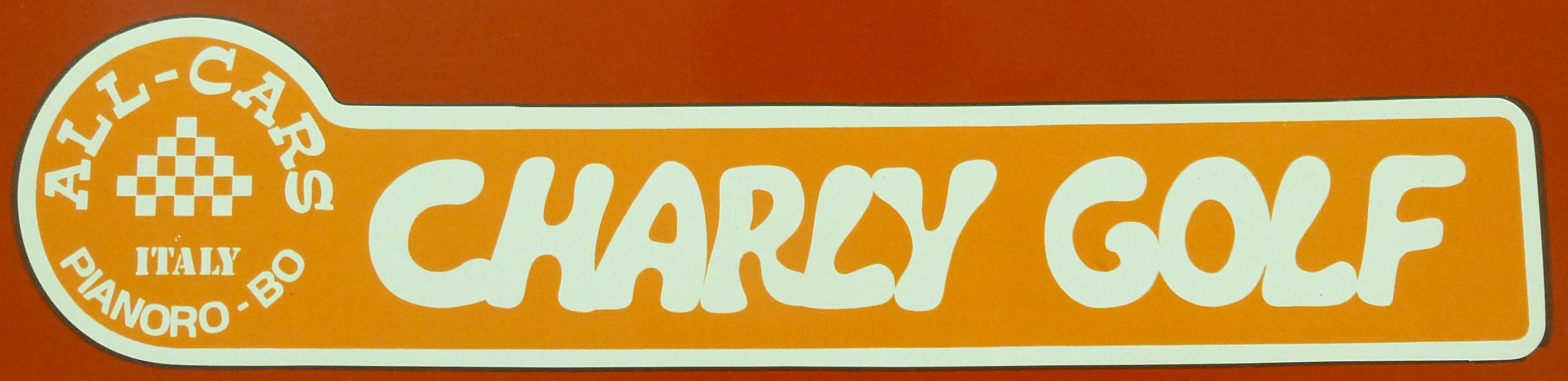 Emblem All Cars Charly Golf